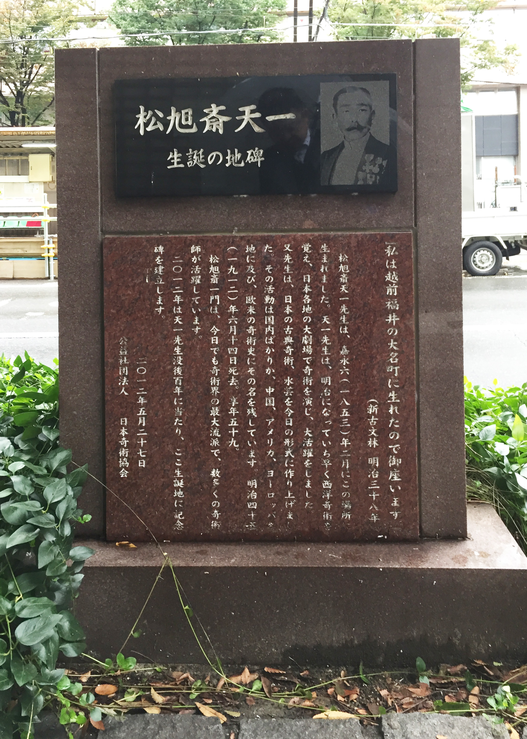 Birth monument of Ten Ichi (Tenichi Shokyokusai) in Fukui City. He was the first modern magician in Japan.